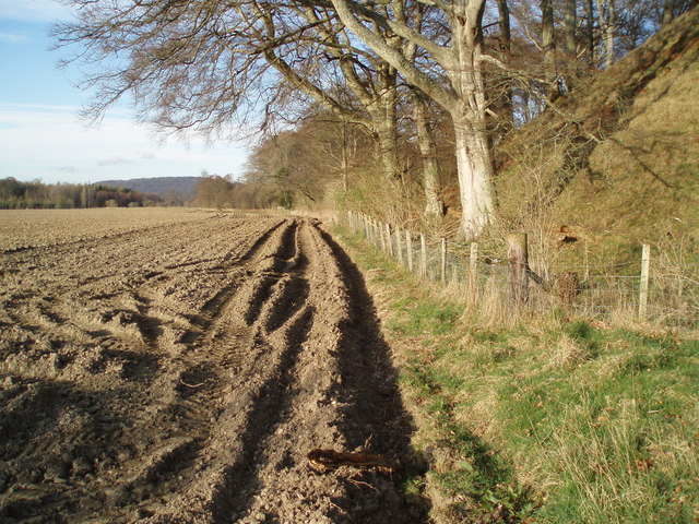 Boundary alongside old fort, Inchtuthil